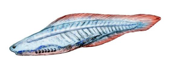 Haikouichthys